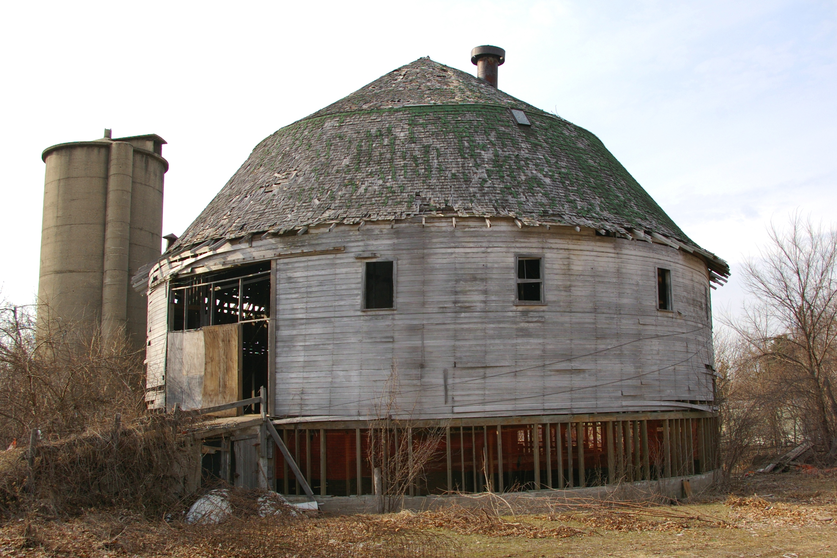 Exterior of the Dougan Round Barn, located at 444 W. Colley Road near Beloit in Rock County, Wisconsin, United States. Built in 1911, it is listed on the National Register of Historic Places.